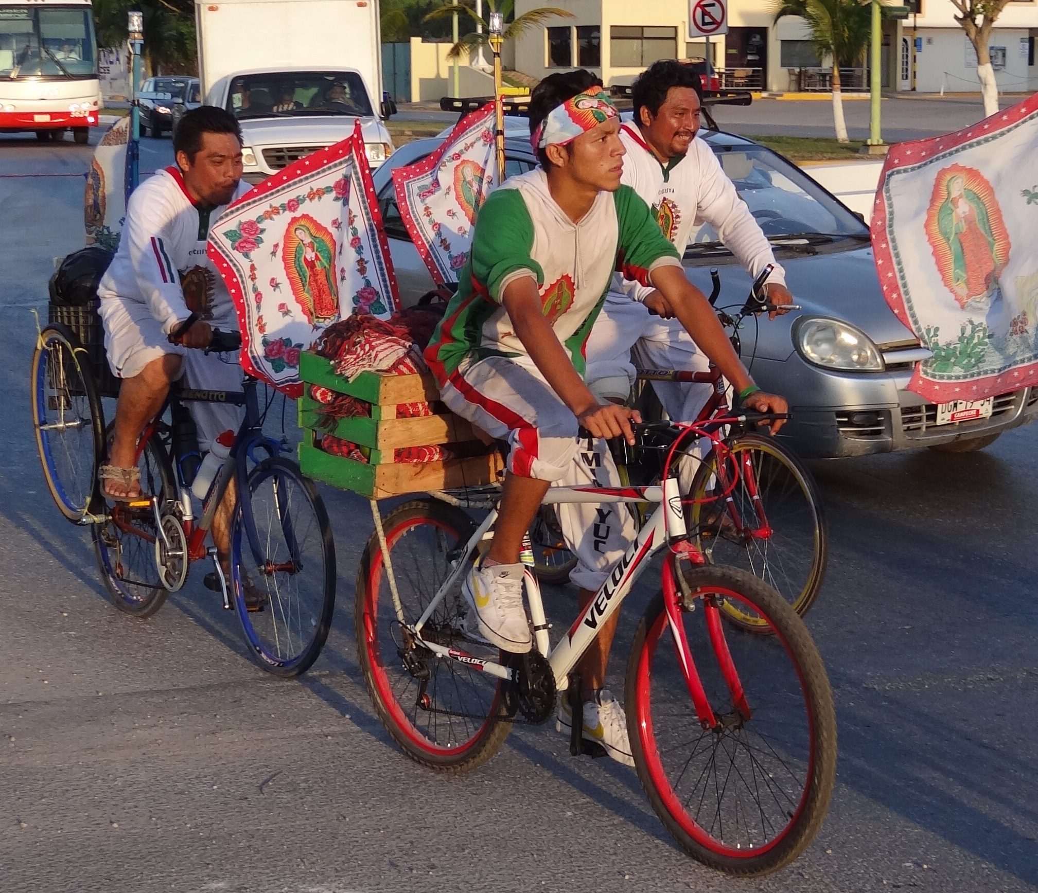 Virgin of Guadalupe Pilgrims on Bicycles — state of Campeche, México.